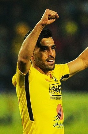 Bakhtiar Rahmani